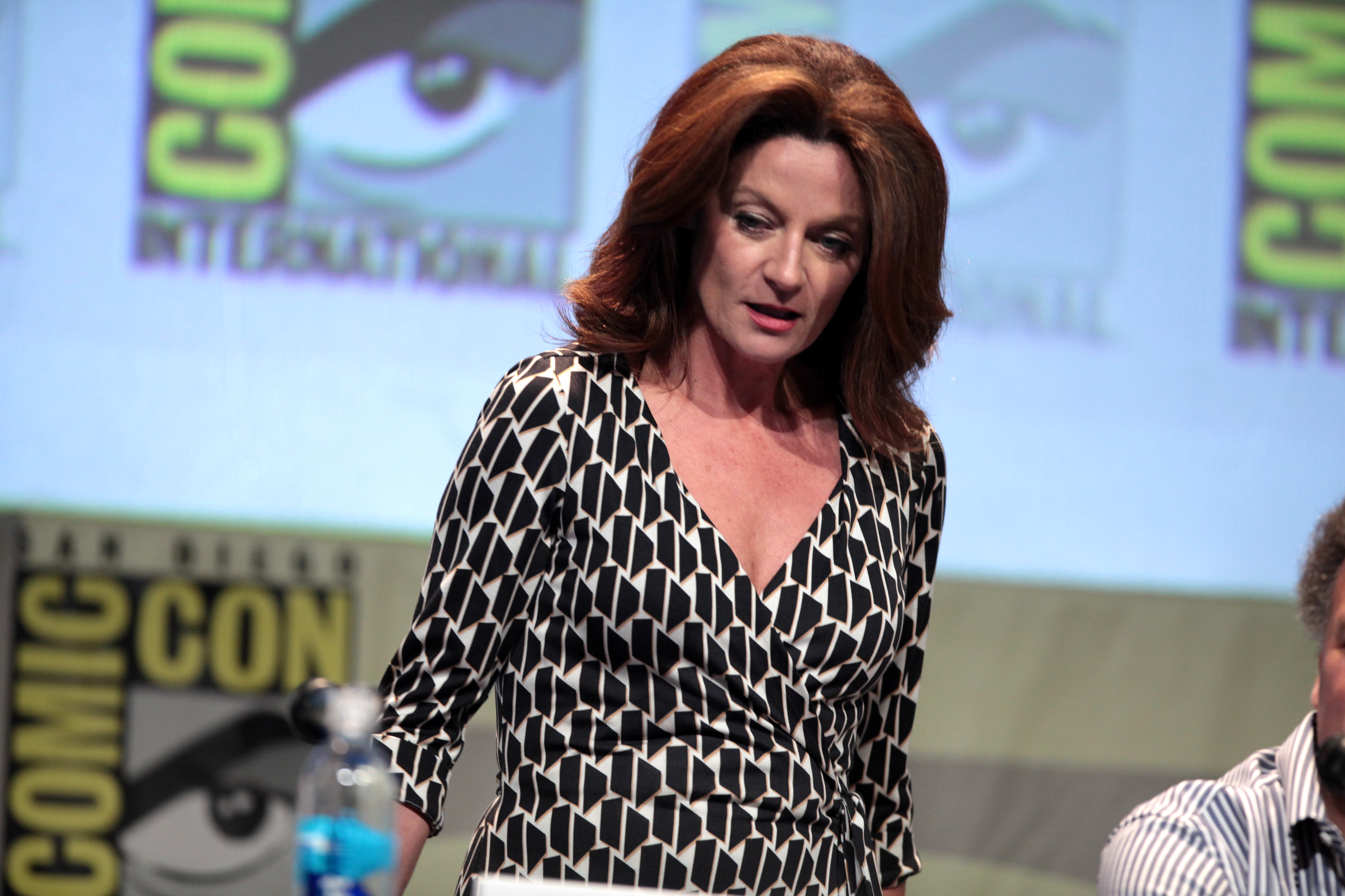 Michelle Gomez speaking at the 2015 San Diego Comic Con International, for "Doctor Who", at the San Diego Convention Center in San Diego, California.